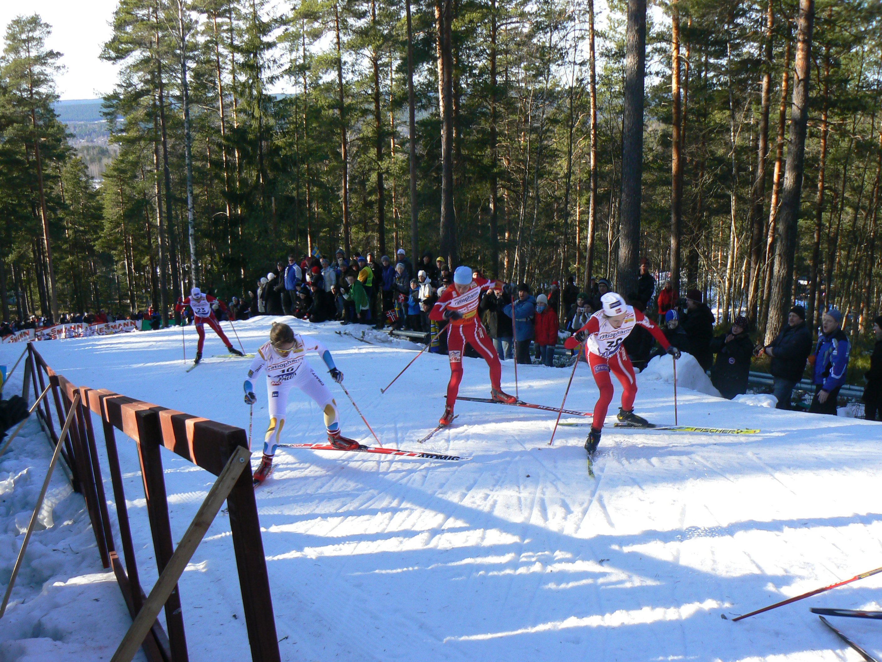 Cross country skiers Anna Haag (Nr 16), Sweden, Marte Elden (Nr 36), Norway and Kristin Muerer Stemland (Nr 23), Norway, and Justyna Kowalczyk in the 7,5 + 7,5 km FIS World Cup race in Falun on February 23 2008.